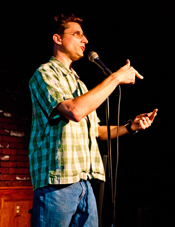 Comedian Robert Mac Performs at Laffs Comedy Caffe in Tucson, Arizona. June 9, 2011.